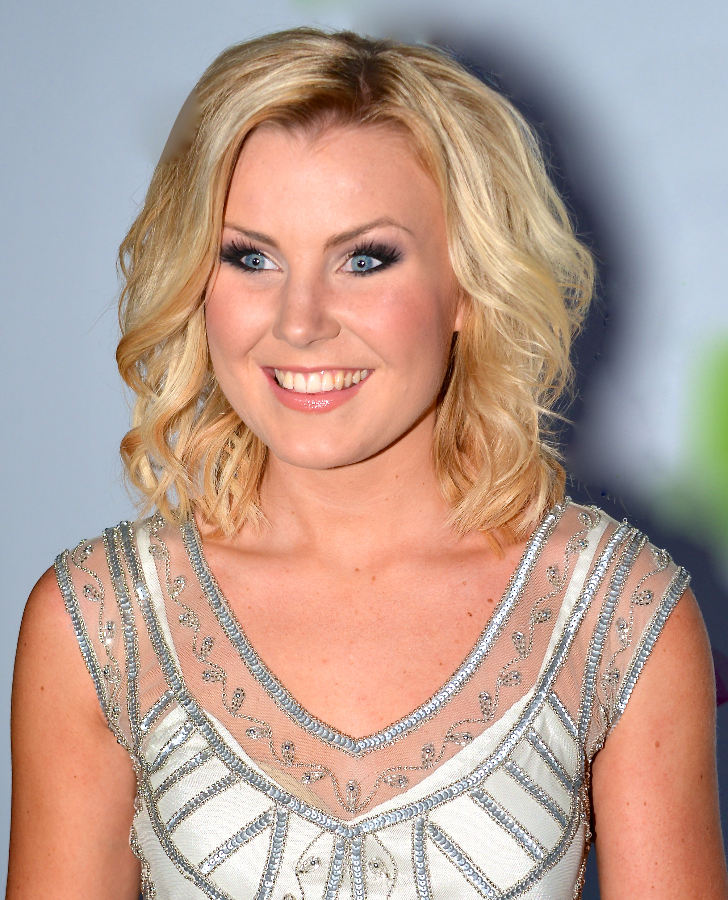 Elisa Lindström at Grammy Awards at Cirkus, Stockholm, February 20th, 2013.